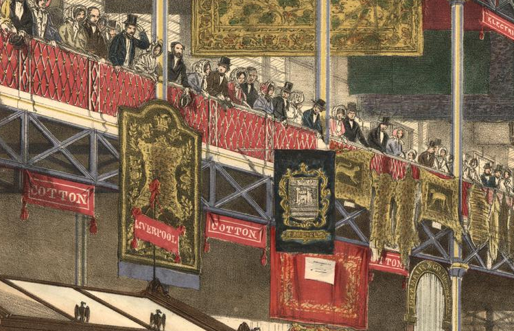 View along the central nave of the Great Exhibition at Crystal Palace, displaying the industrial products of Britain; plate 3. 1851 Colour lithograph